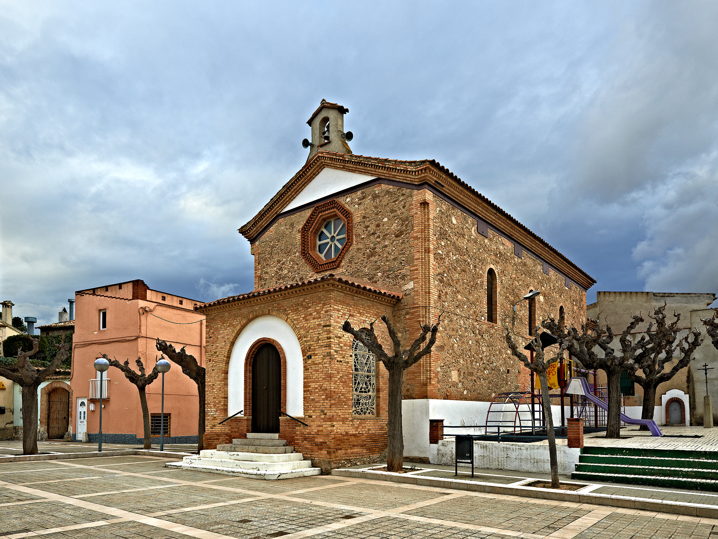 Puigdàlber church square, Alt Penedès, Catalunya.